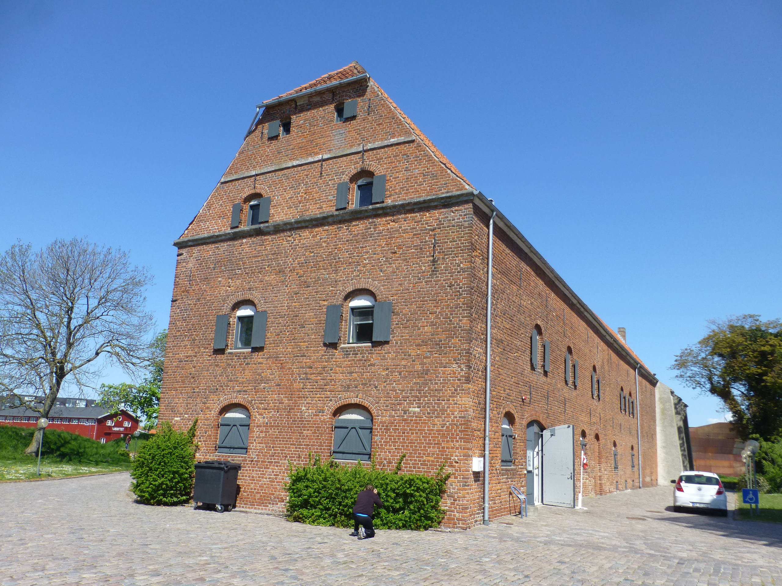 The former fortress Korsør Søbatteri in Korsør in Denmark. This building houses By og Overfartsmuseet, a museum for the town and the Great Belt ferries.